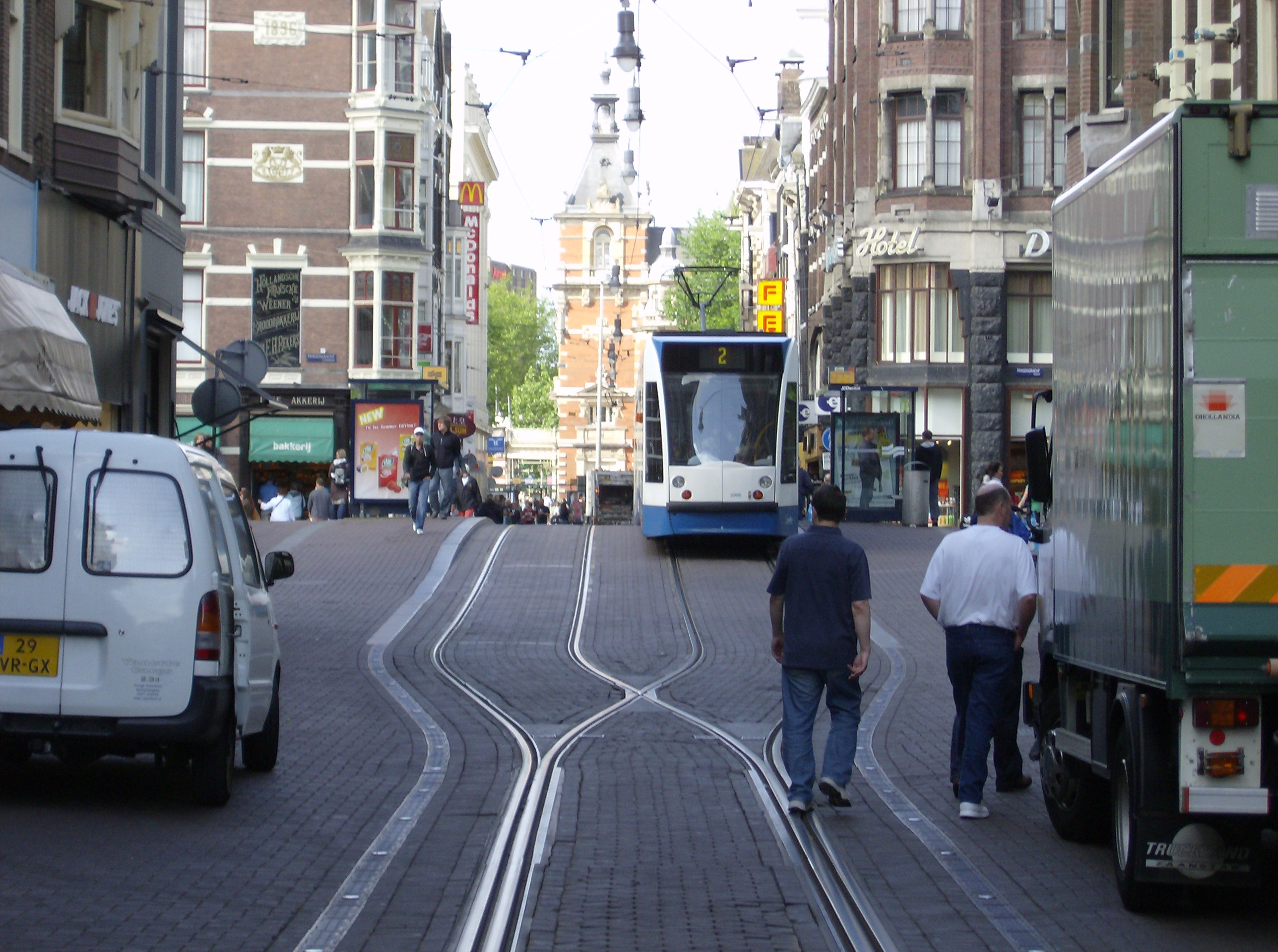 Scene at the Leidsestraat in Amsterdam with a tram in sight